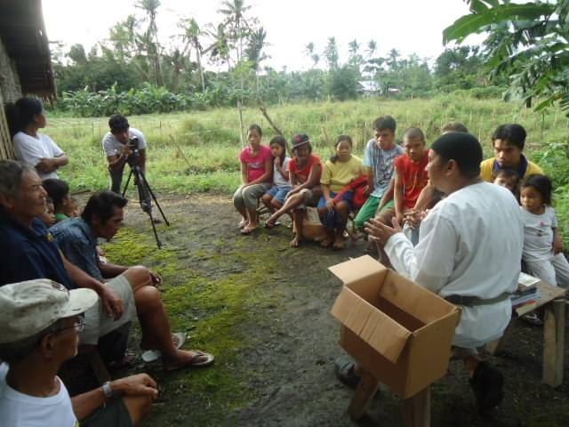 daiyah philippines activity